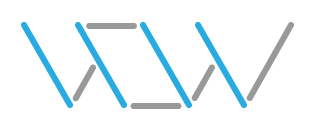 Logo for the defunct British workstation company: Whitechapel Computer Works Ltd. (WCW) .